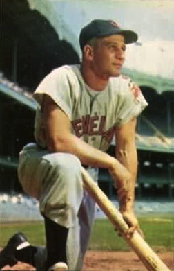 Cleveland Indians third baseman Al Rosen in about 1953.